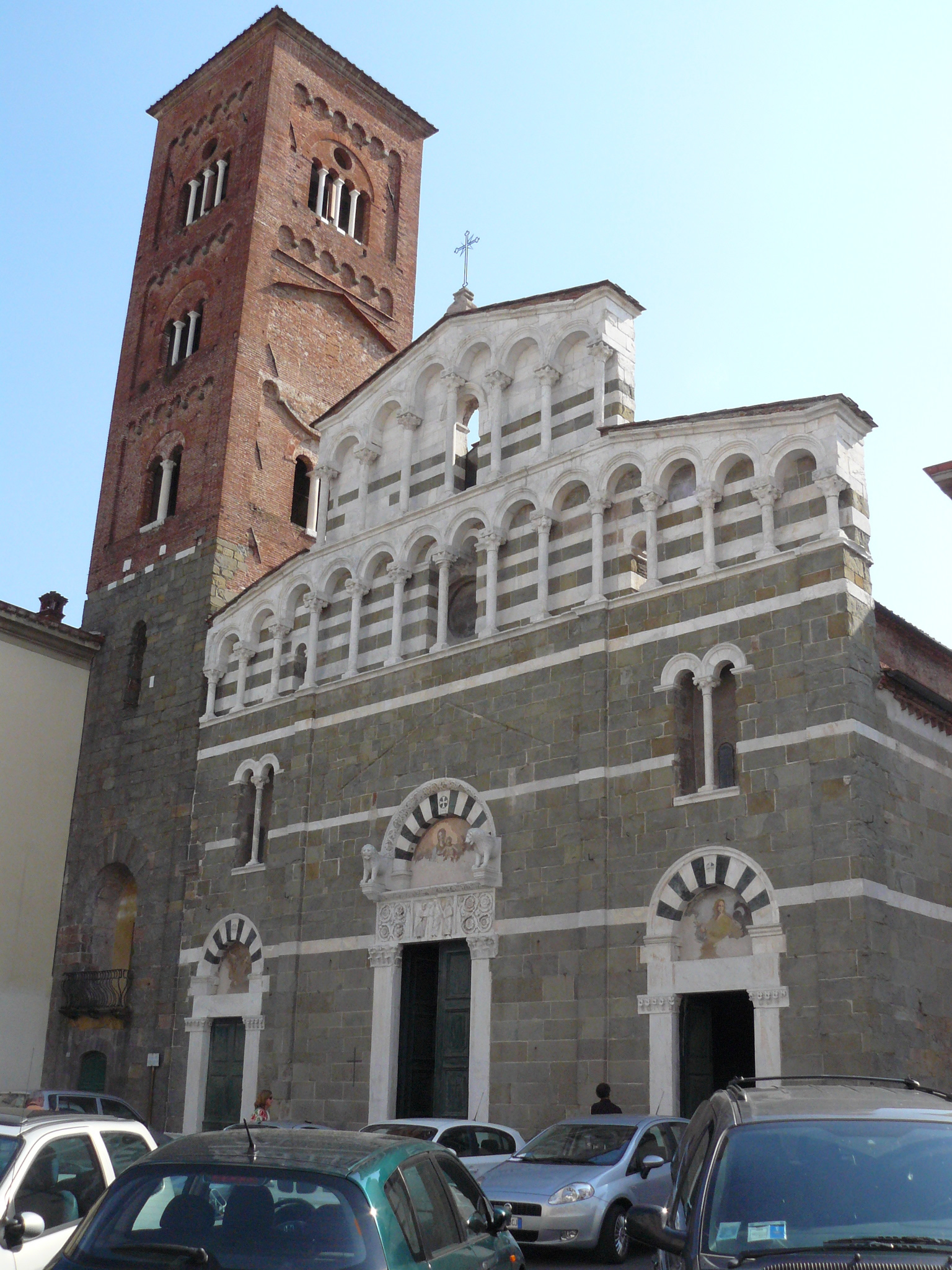 Church of San Pietro in Lucca, Italy